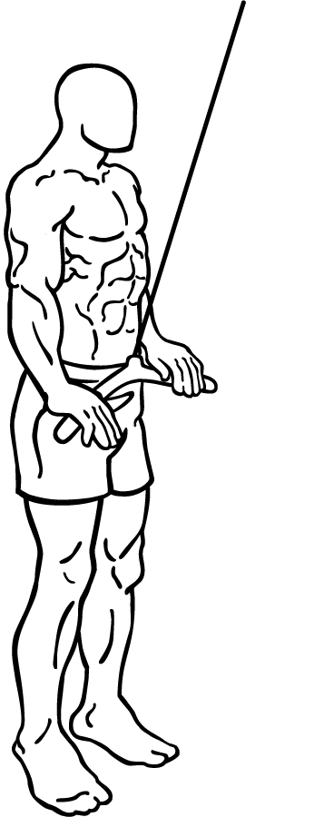 an exercise of upper back